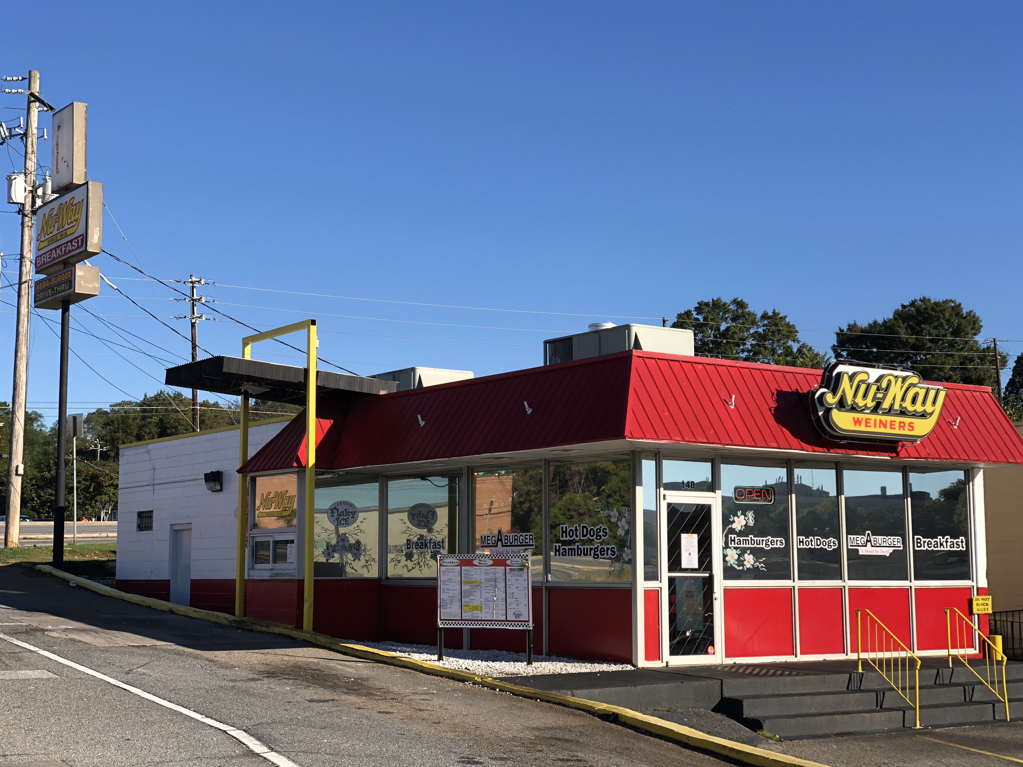 Nu-Way Weiners, Inc. is a company that operates a chain of fast food restaurants that started in Macon, Georgia, United States. One of their locations is pictured.